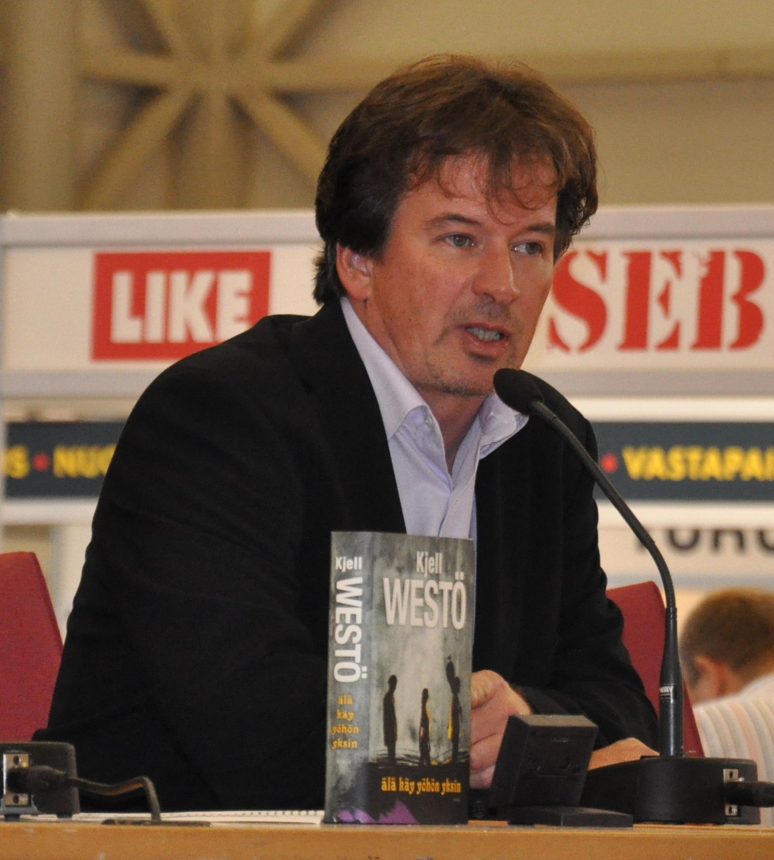 Finnish writer Kjell Westö at the Turku Book Fair 2009.